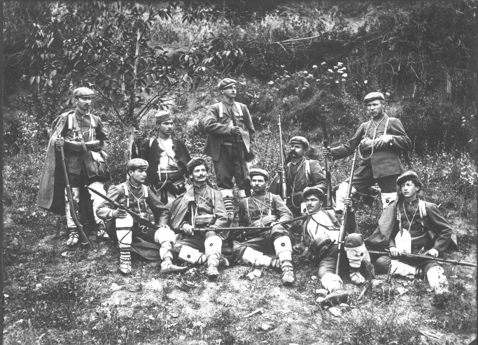 Cheta of Petar Jurukov